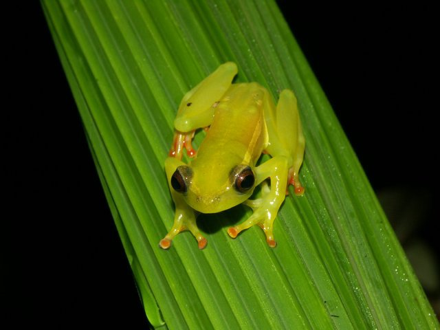 Hyperolius riggenbachi hieroglyphicus